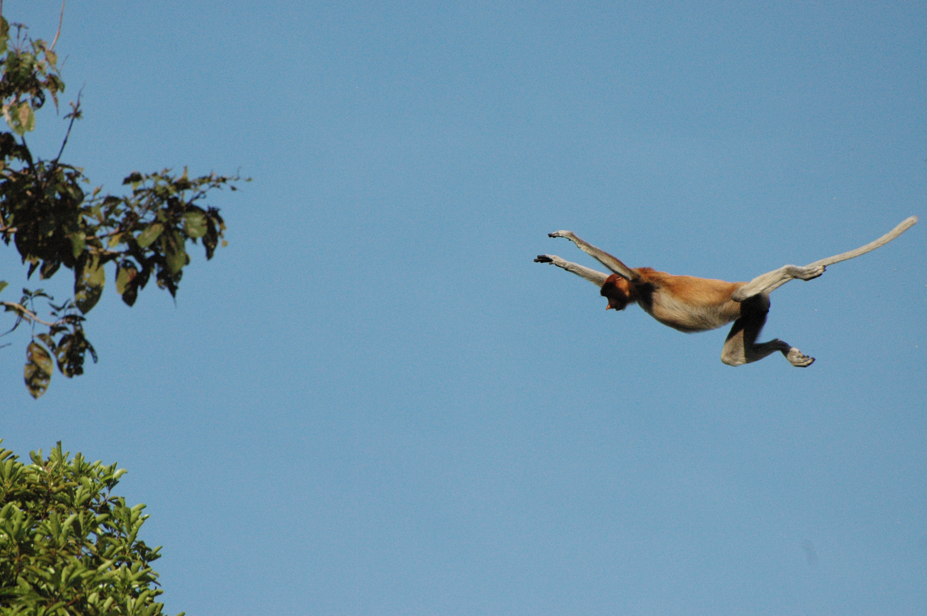 Proboscis monkey in Borneo